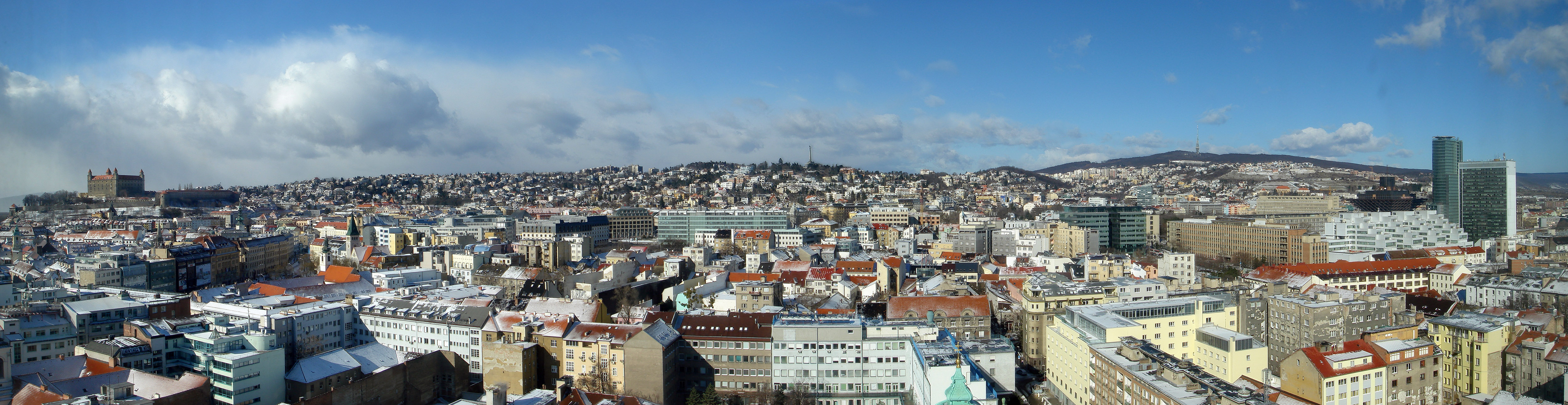 Bratislava, Slovakia, taken about three and a half hours after File:Bratislava sun.jpg. February 2008.